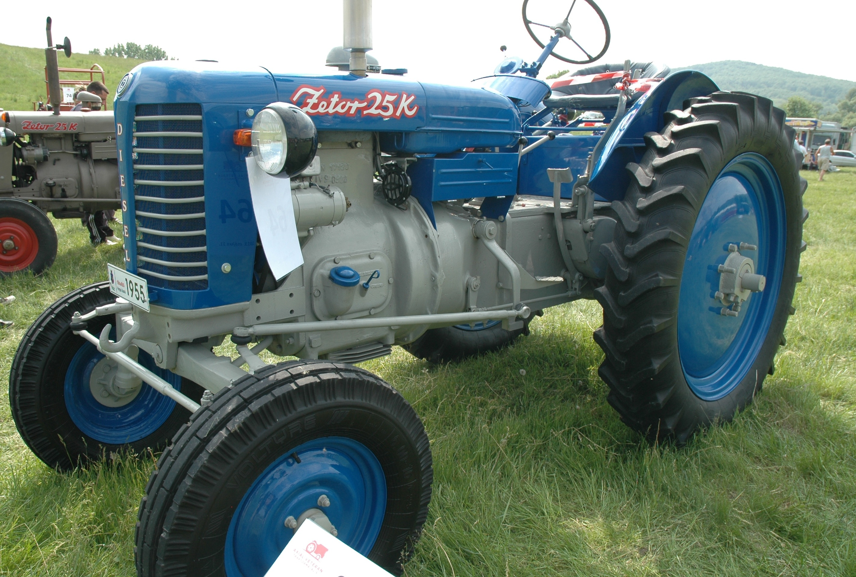 Zetor 25K tractor on the tractor festival in Bokor village (Hungary)